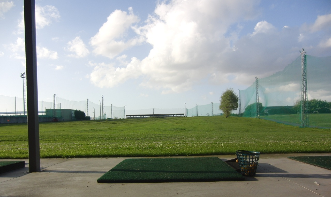 Campo Municipal de Golf de La Torre, A Coruña, Spain